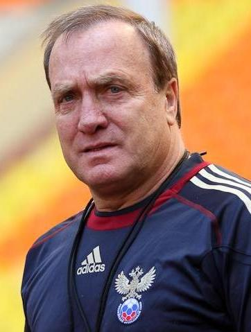 Dick Advocaat coaching with the Russia national football team in 2011.